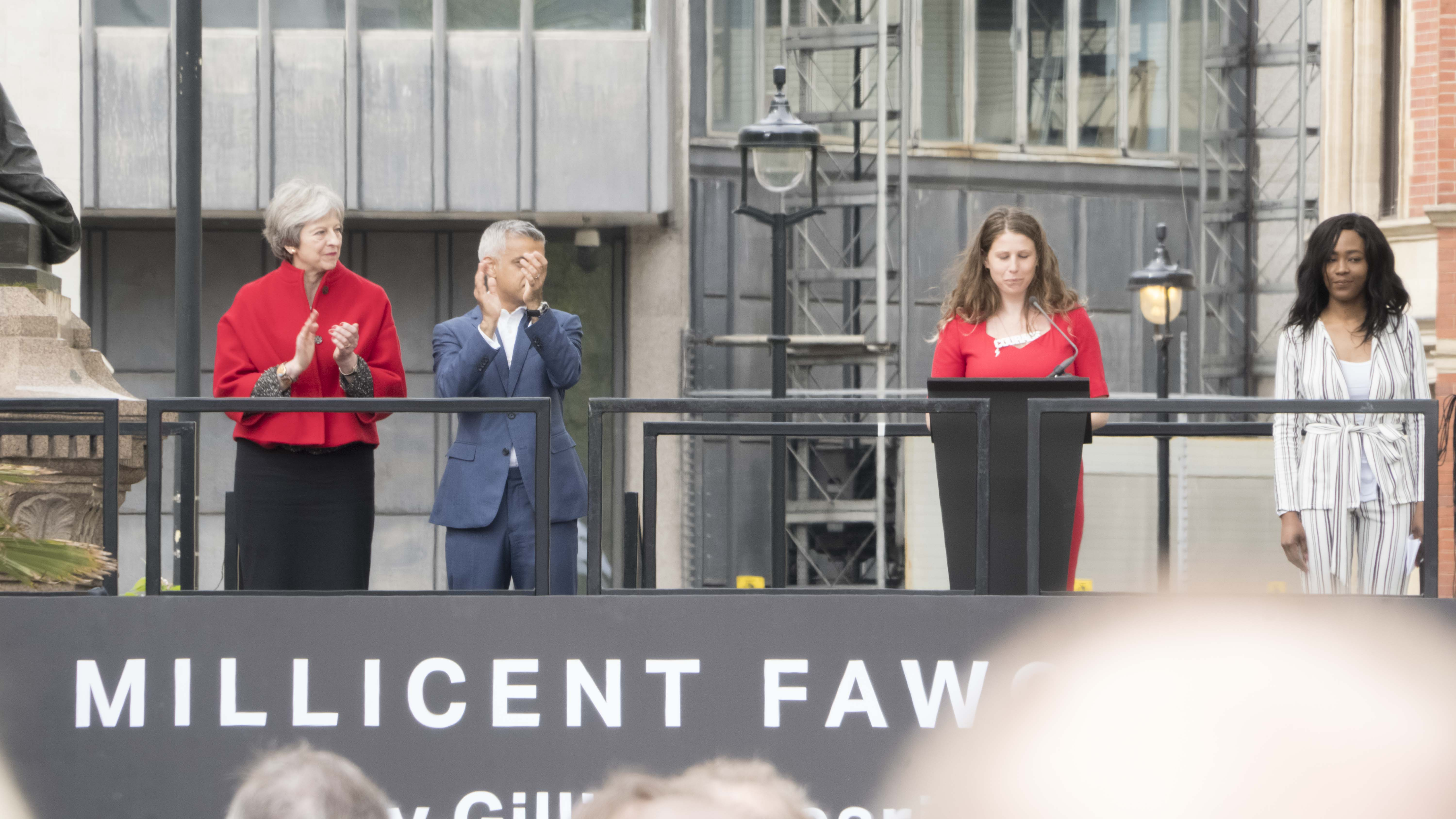 Unveiling of the statue of Suffragette Millicent Fawcett in Parliament Square, attended by Mayor of London Sadiq Khan and Prime Minister Theresa May.